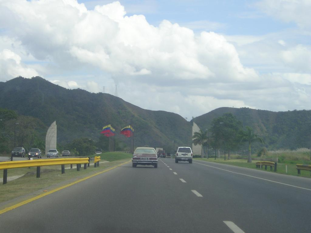 Motor road from Valencia to Caracas